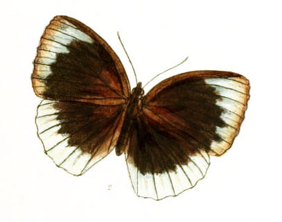 Agrusia andersonii